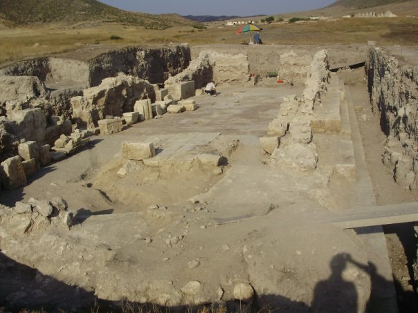 Tigrankert (Artsakh). Agdam Rayon, / Askeran province, Republic of Mountainous Karabakh.